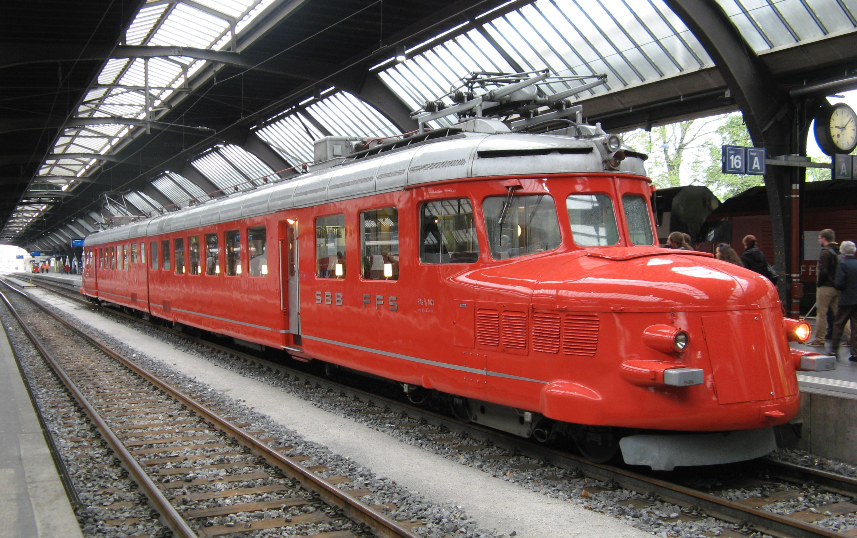 The Churchill Red Arrow was built as a unique specimen for the Swiss National Exhibition in 1939. On this photo it is in the main train station in Zürich, Switzerland.